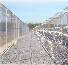 Concertina razor wire at a prison